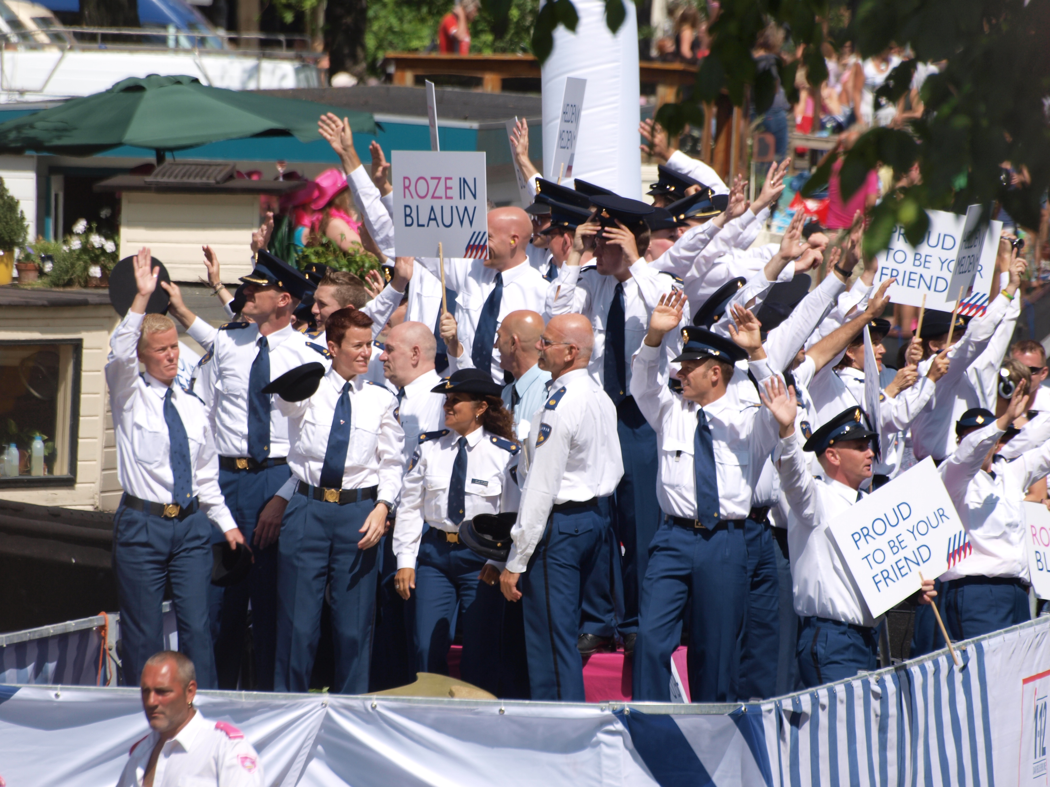 Photographed at the Prinsengracht Amsterdam, the Netherlands.